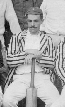 The Kent County Cricket team, circa 1888. Leslie Wilson.